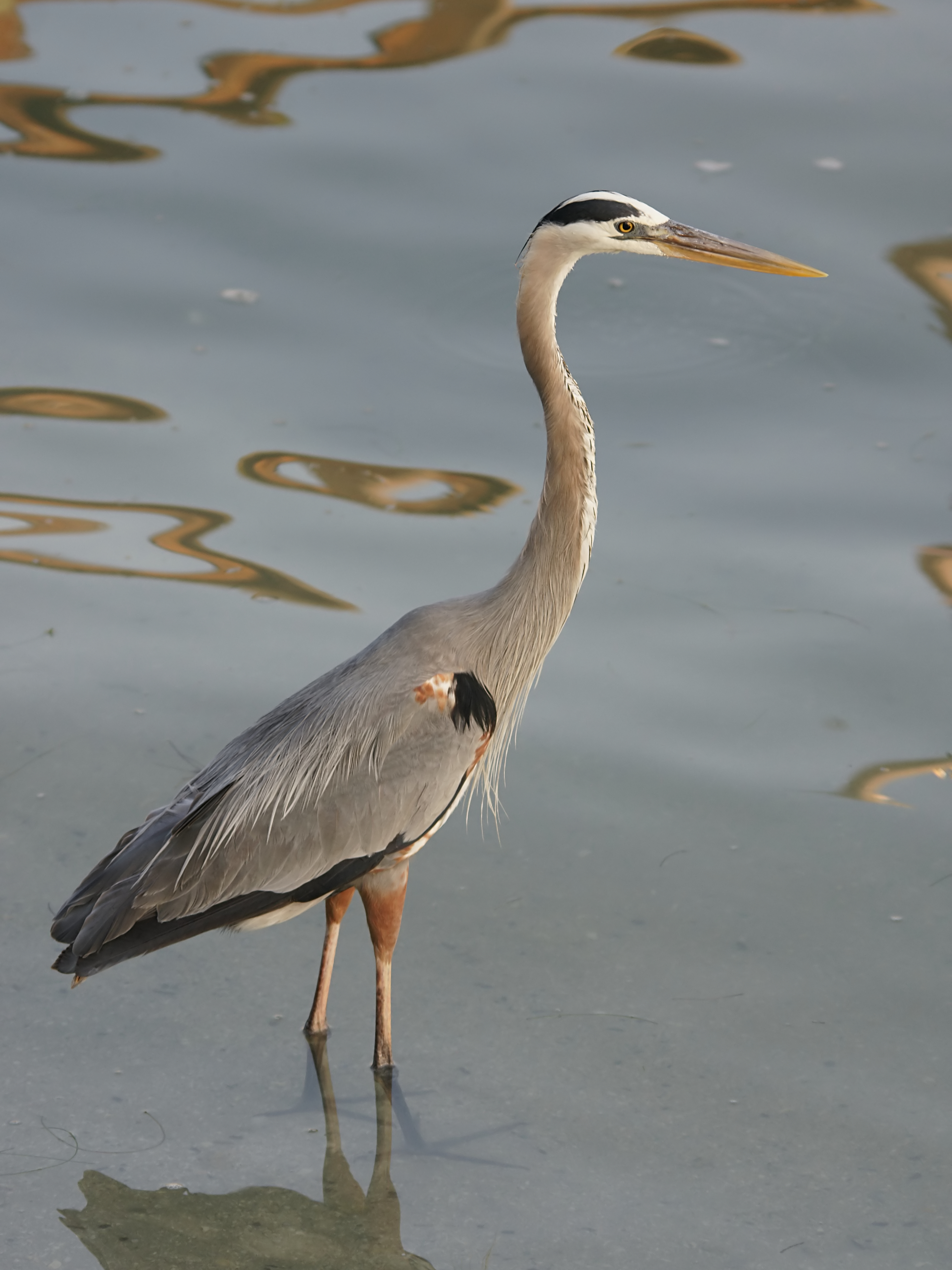 Great Blue Heron at Fort Pierce in St. Lucie County, Florida, U.S.A.